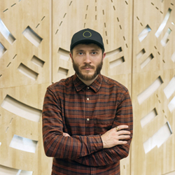 Luca Pozzi, portrait at CERN, Main Auditorium, 2017.